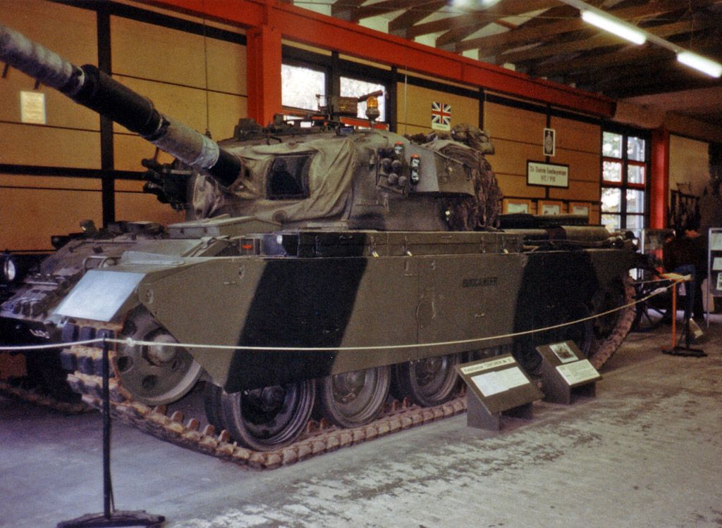 Centurion Mk. 12 Location: Panzermuseum Munster (Germany) Image taken by: Benutzer:Darkone